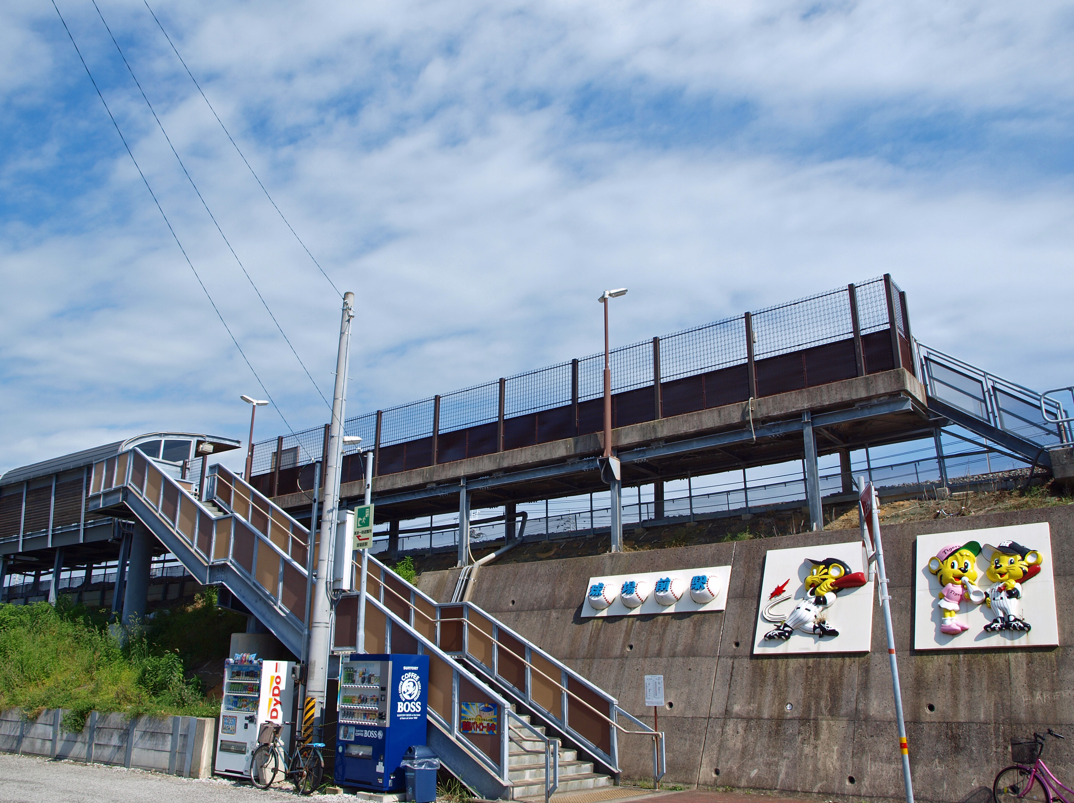 Kyujomae Station, Gomen-Nahari Line（Asa Line), Tosa Kuroshio Railway, Japan